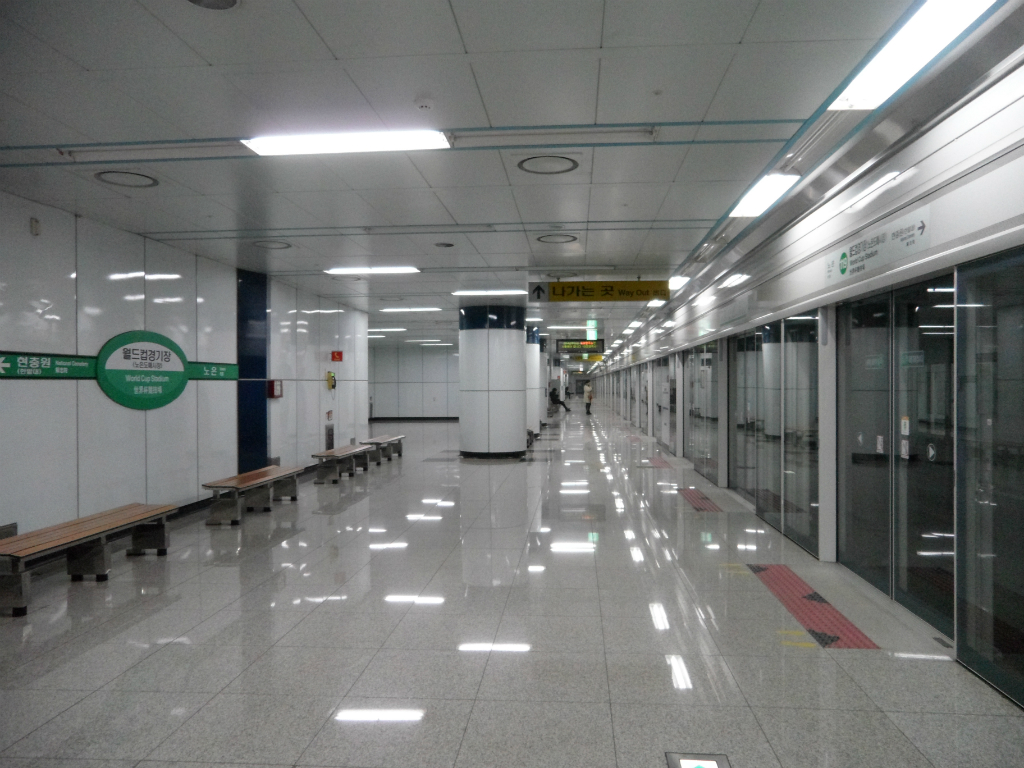 Platform of World Cup Stadium Station